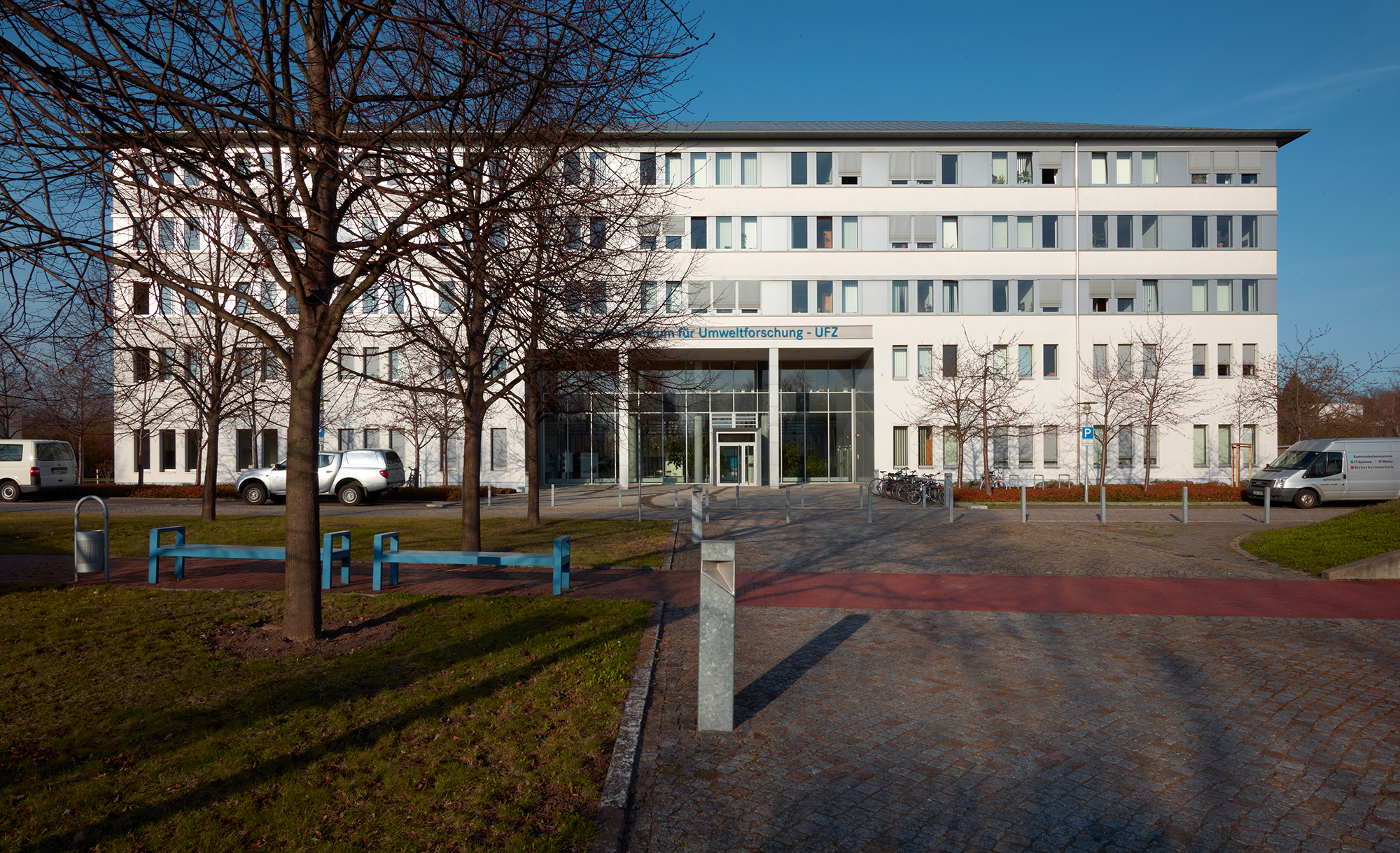 UFZ GebäudeLabor- und Bürogebäudes des Standortes Halle